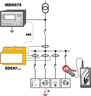 Principle of an Earthfault Detection System with permission of Dipl.-Ing. W. Bender GmbH